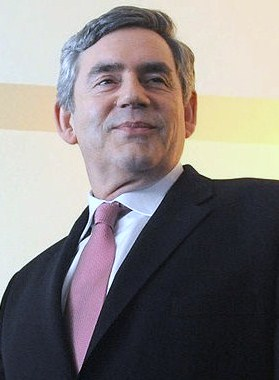 James Gordon Brown